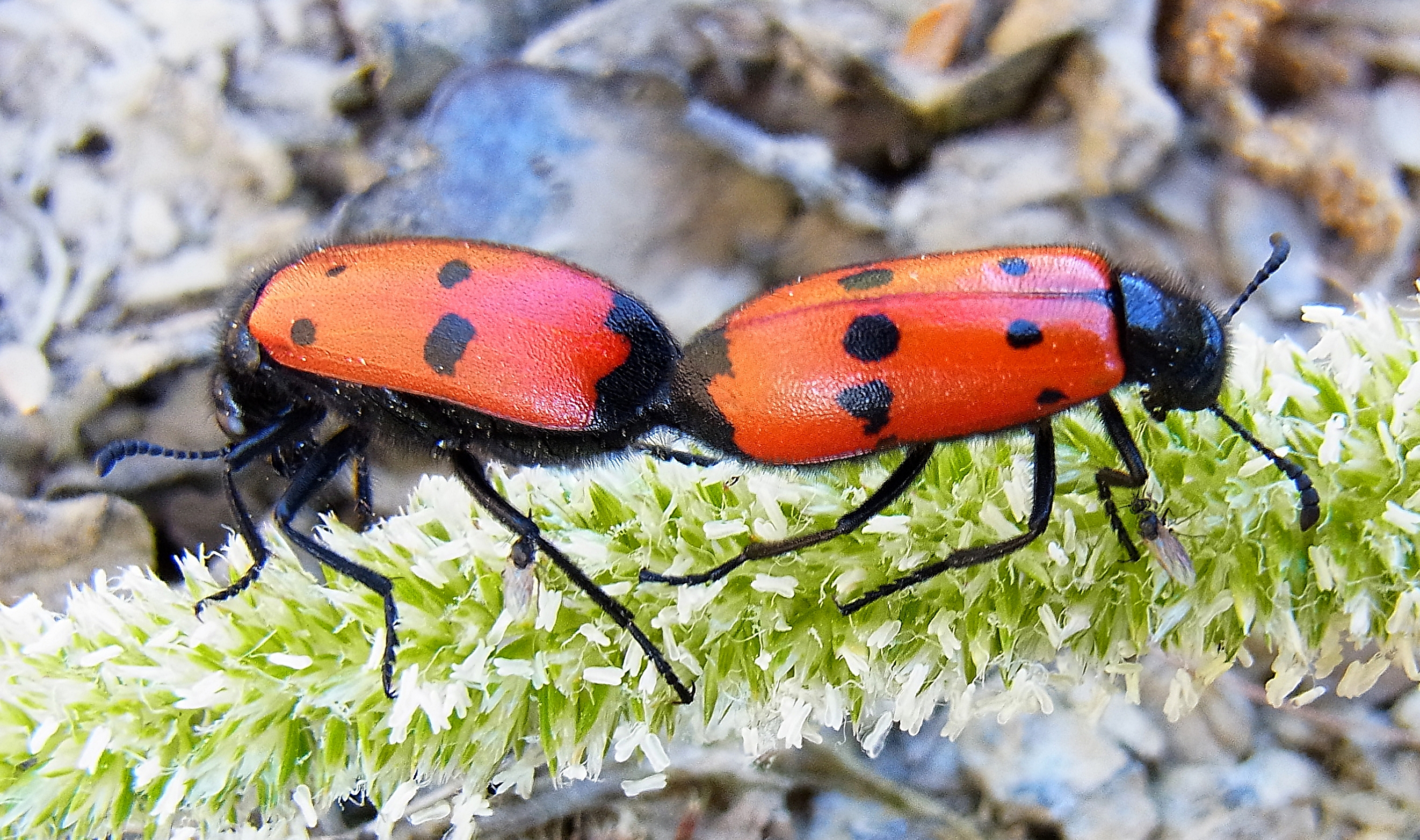 Mylabris quadripunctata from Northern Spain, near 34820 Barruelo de Santullán, Palencia at 2013-07-08